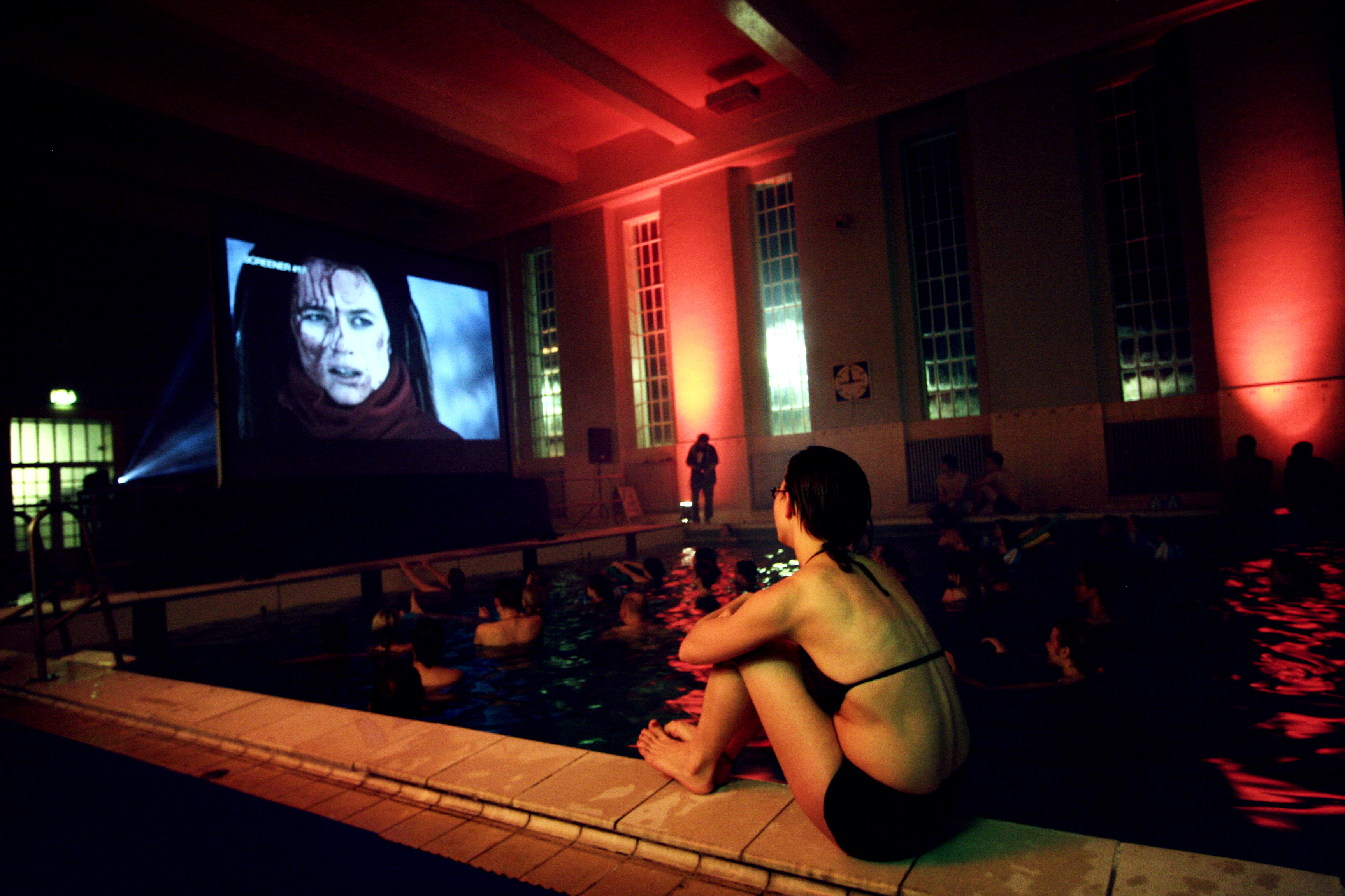 riff